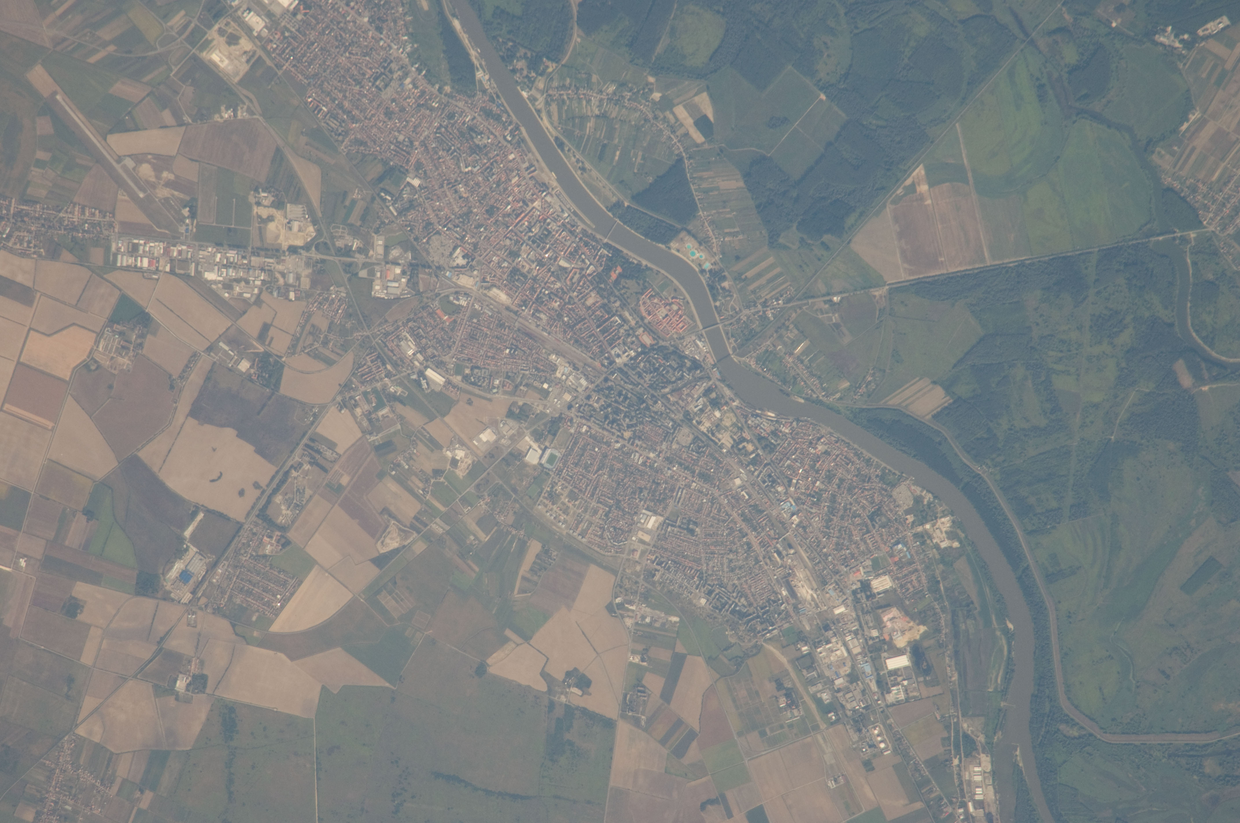 Satellite picture of Drava and Osijek